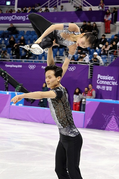 Photos – Olympics 2018 – Pairs (RYOM Tae Ok KIM Ju Sik PRK – 13th Place)